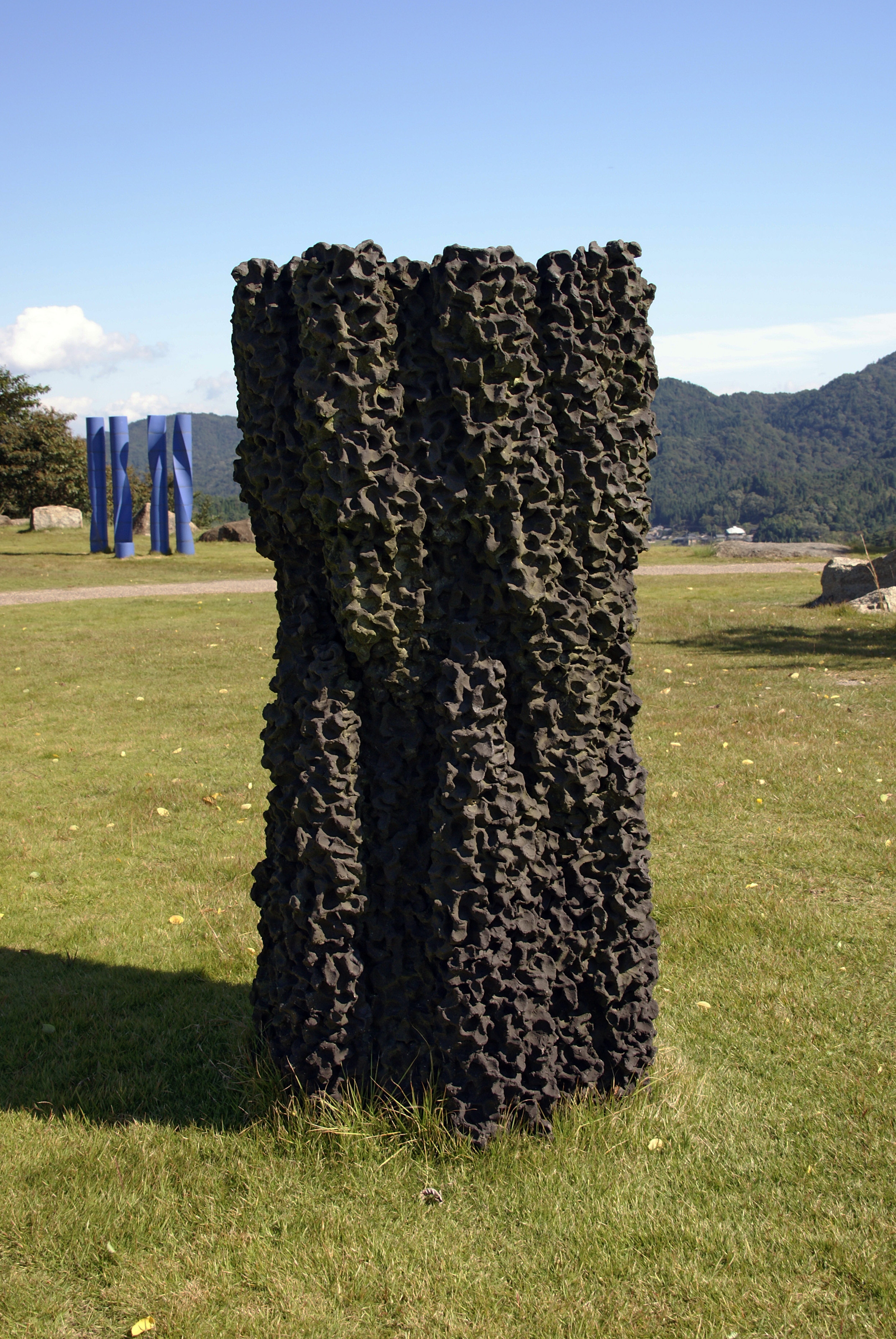 Shigaraki Ceramic Cultural Park in Koka, Shiga prefecture, Japan